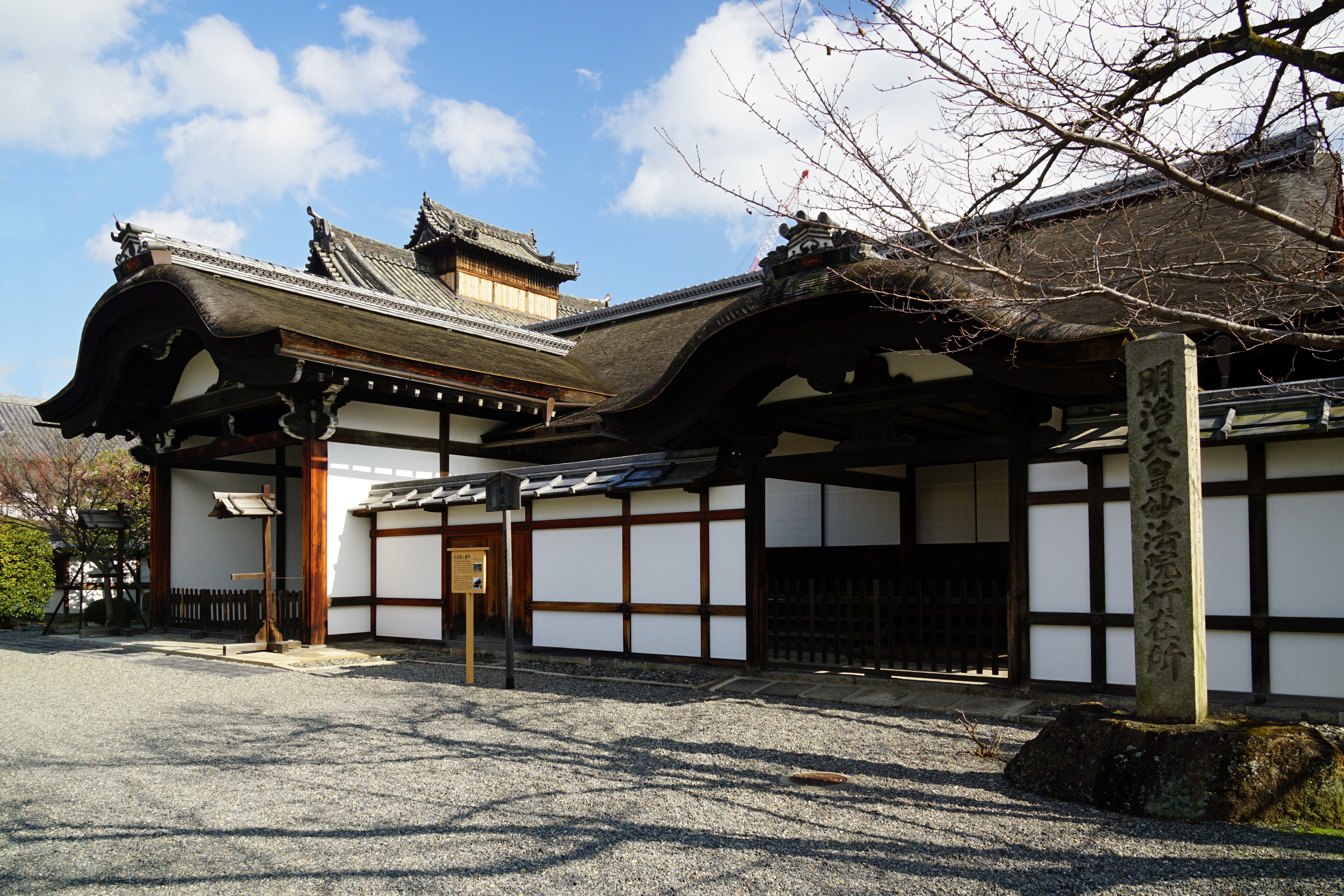 Myohoin in Kyoto, Kyoto prefecture, Japan